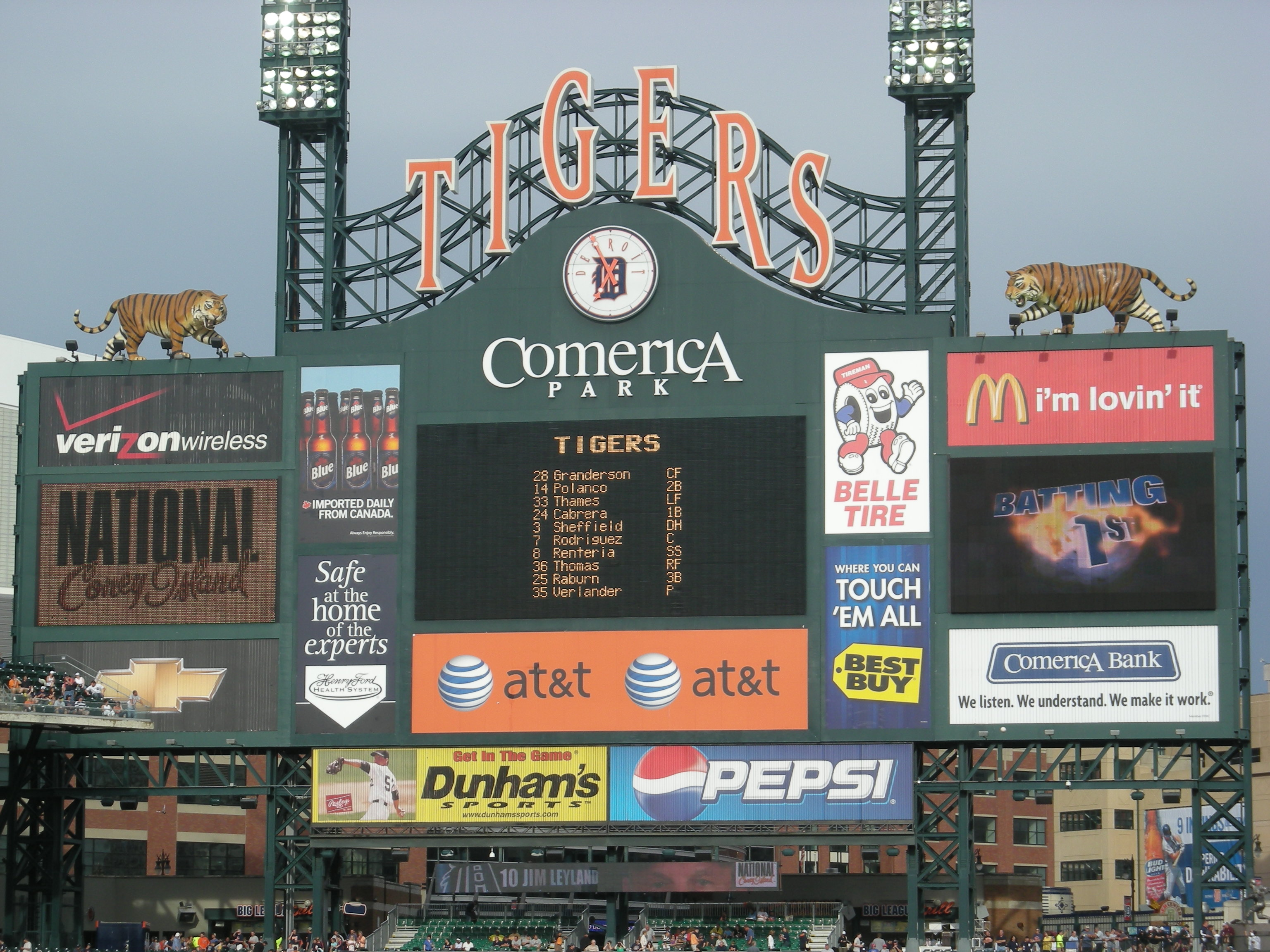 The leftfield scoreboard before the Cleveland Indians vs. Detroit Tigers baseball game at Comerica Park in Detroit, Michigan (United States).